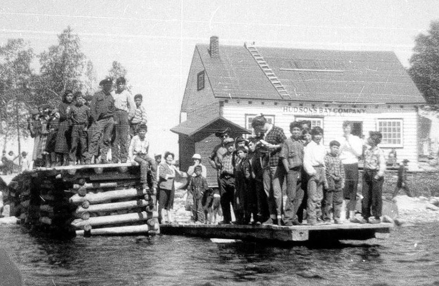 Atikamekw men on the wharf owned by the Hudson Bay Company at Obedjiwan Lake, Quebec, Canada